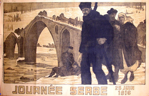 French poster from WWI.